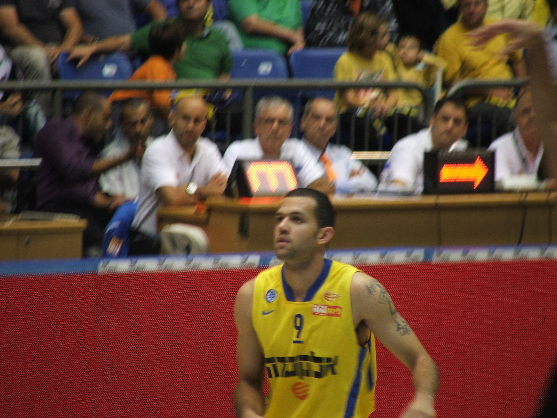 Maccabi Tel Aviv VS. Barak Netanya 31/10/11